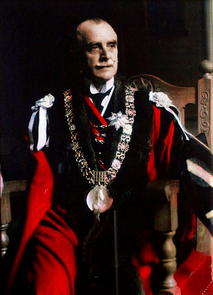 Colour photograph of Alfred Byrne Photograph scanned from the Alfie Byrne Collection courtesy of the Little Museum of Dublin